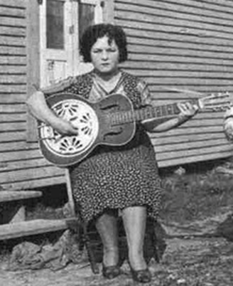 Part of a picture in which are shown Cleoma Breaux with her husband Joe Falcon.